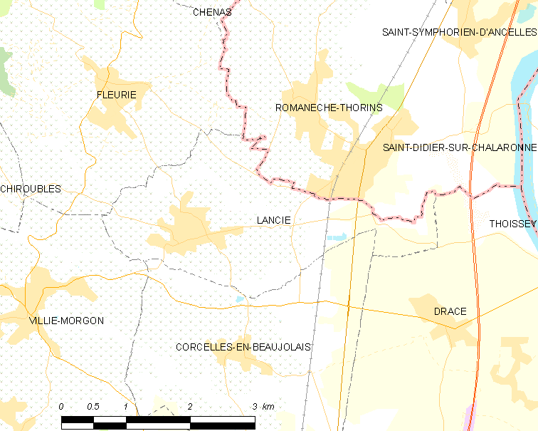 Map of French municipality